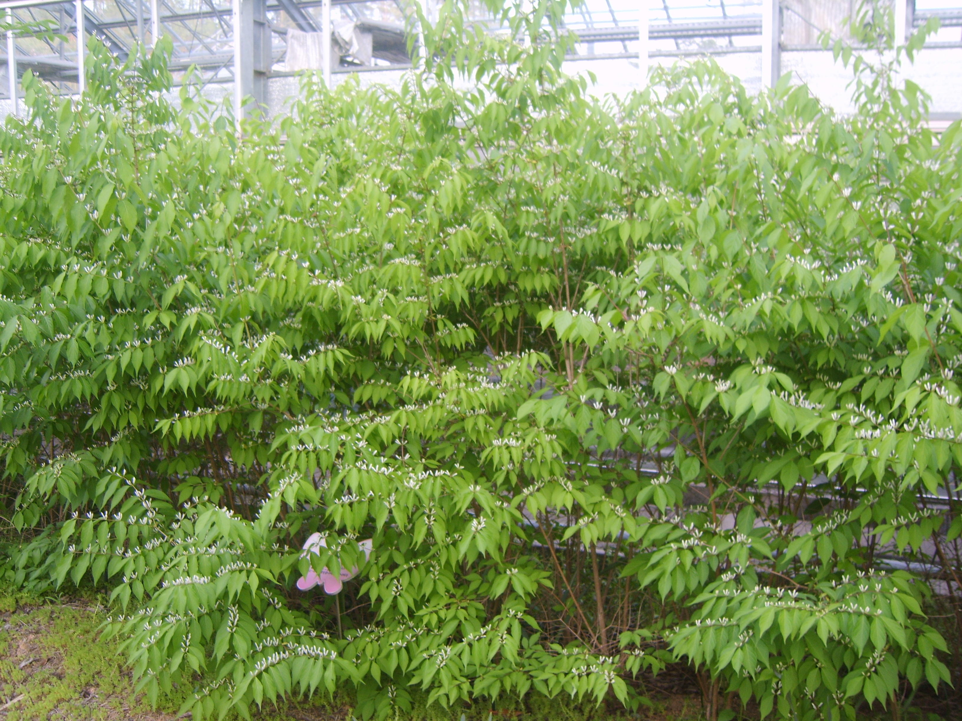 Lonicera maackii in Hampyung, Korea